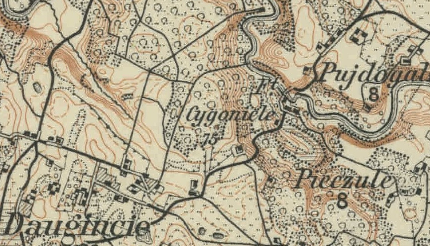 (Cigonaliai village. 1915)